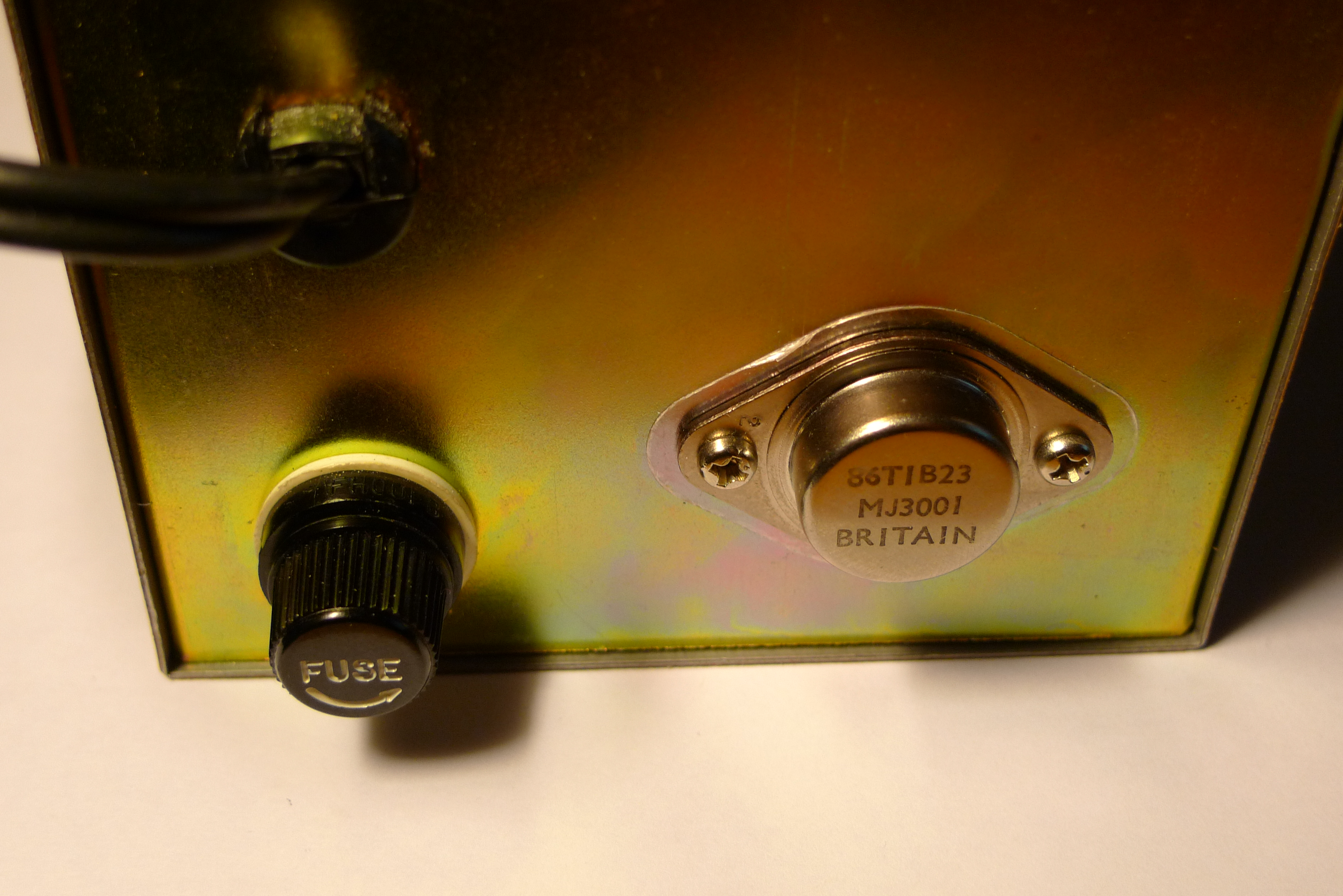 Power supply box with fuse socket to the left, and an MJ3001 PNP Darlington transistor in a TO-3 package to the right